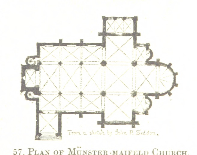 View this map on the BL Georeferencer service. Image taken from: Title: "Rambles in the Rhine Provinces ... Illustrated with chromo-lithographs, photographs, and wood-engravings" Author: SEDDON, John Pollard. Shelfmark: "British Library HMNTS 10240.k.11." Page: 181 Place of Publishing: London Date of Publishing: 1868 Issuance: monographic Identifier: 003325401 Explore: Find this item in the British Library catalogue, 'Explore'. Download the PDF for this book (volume: 0) Image found on book scan 181 (NB not necessarily a page number) Download the OCR-derived text for this volume: (plain text) or (json) Click here to see all the illustrations in this book and click here to browse other illustrations published in books in the same year. Order a higher quality version from here. This file has been provided by the British Library from its digital collections. This file is from the Mechanical Curator collection, a set of over 1 million images scanned from out-of-copyright books and released to Flickr Commons by the British Library. Please add the Flickr page URL for the image Please add the British Library system number for the book This tag does not indicate the copyright status of the attached work. A normal copyright tag is still required. See Commons:Licensing.